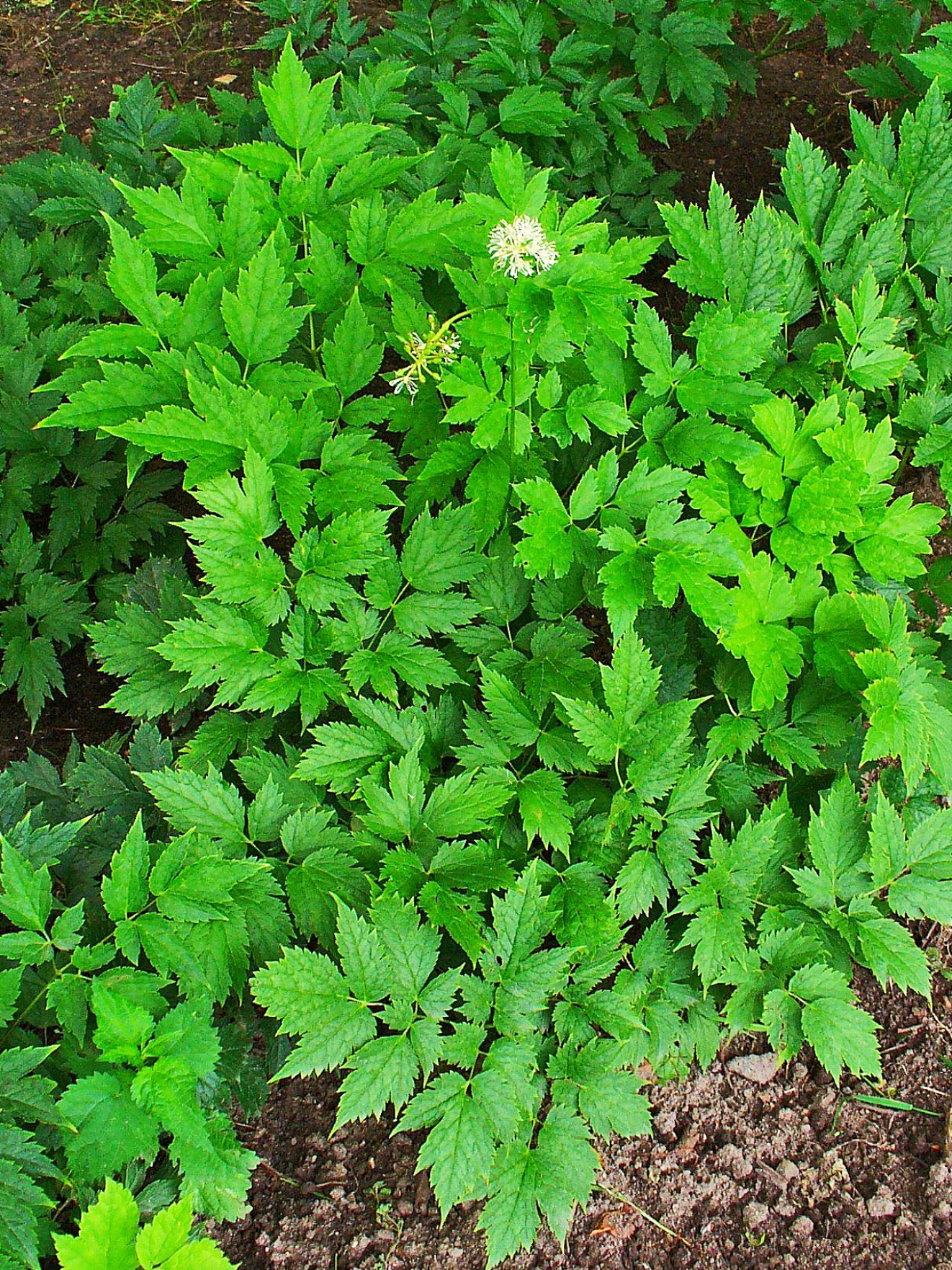 Baneberry, Eurasian Baneberry, Herb Christopher, habitus; Stutensee, Germany